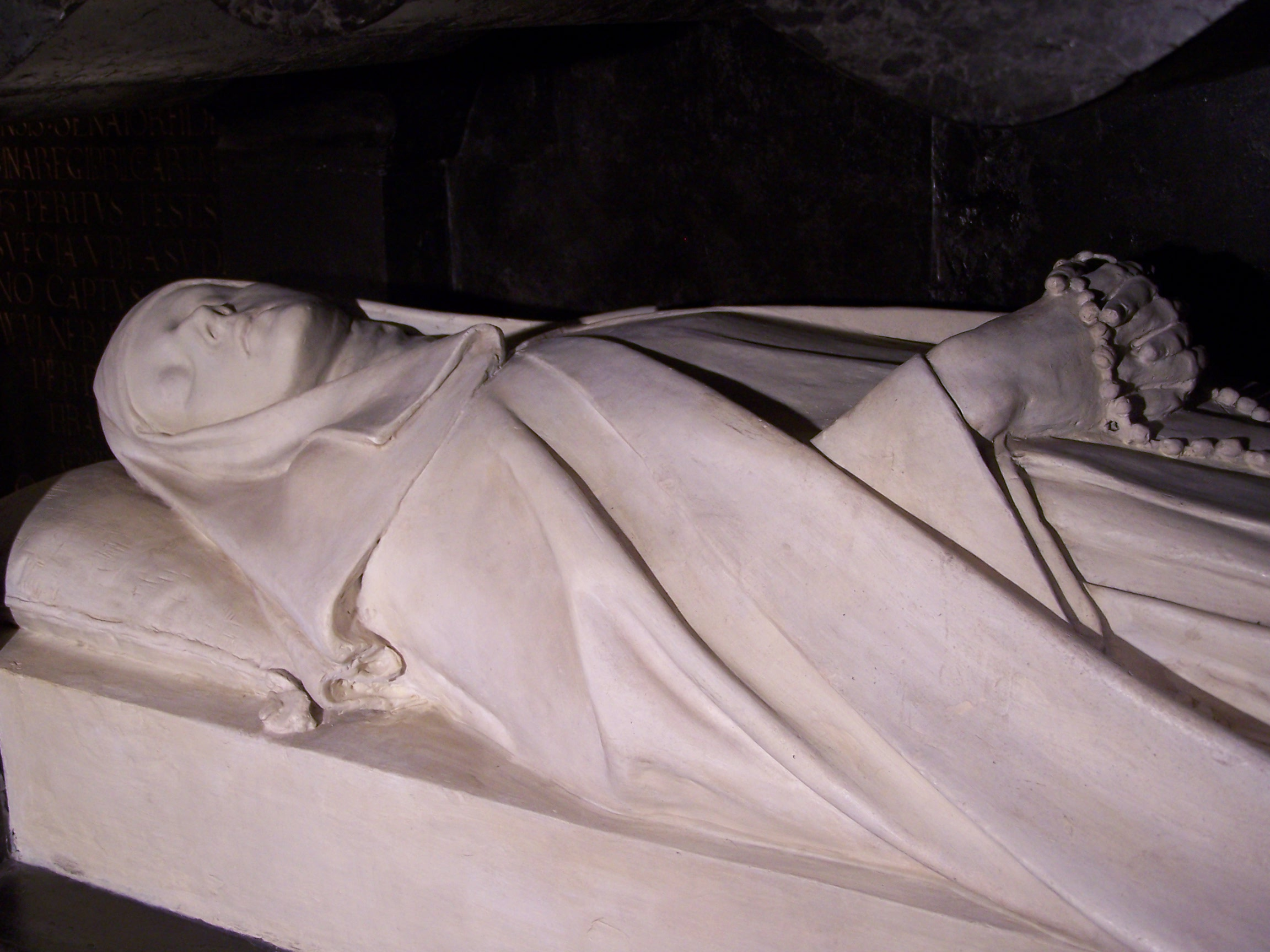 Grave of bl. Salome